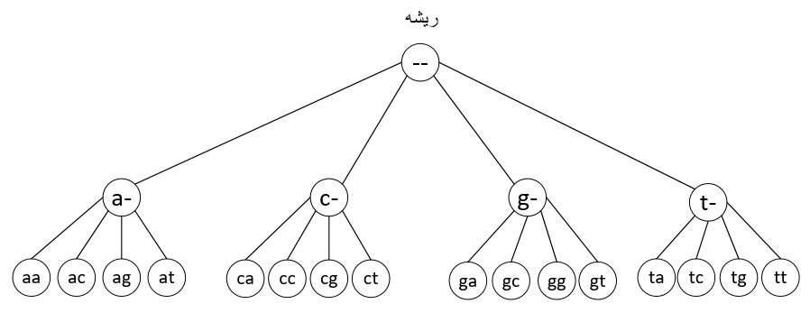 گراف جست‌وجوی پیشوندی